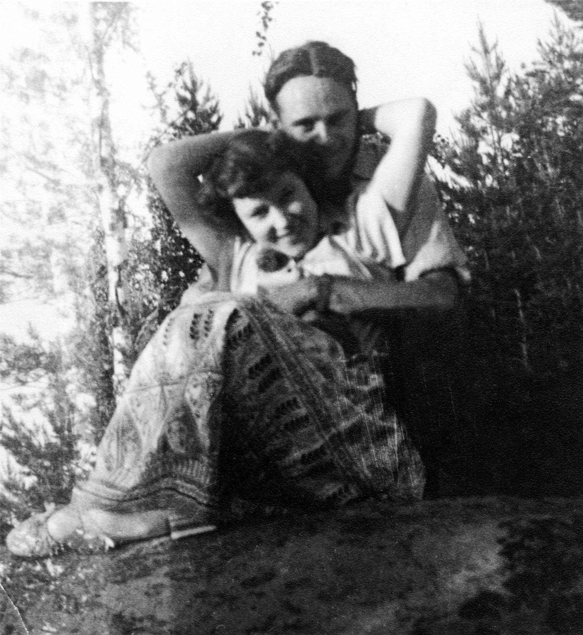 Photograph of the Finnish entrepreneur Kirsti Paakkanen née Poikonen (1929–) and her further husband Jorma Paakkanen (?–2019). They were married 1952–1964.